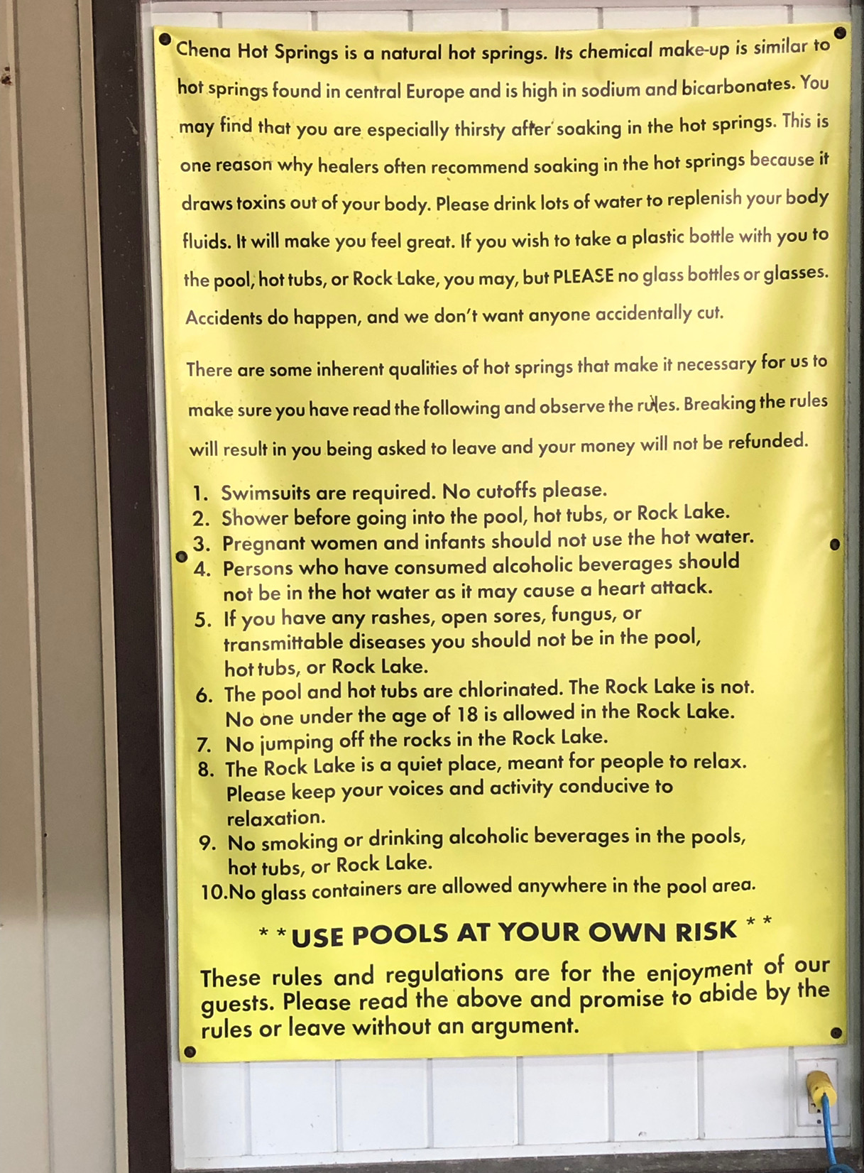 Warning sign at Chena Hot Springs explaining that it's water is high in sodium and bicarbonates, which is prone to make swimmers thirsty.